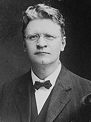 Photograph of Emil Seidel.